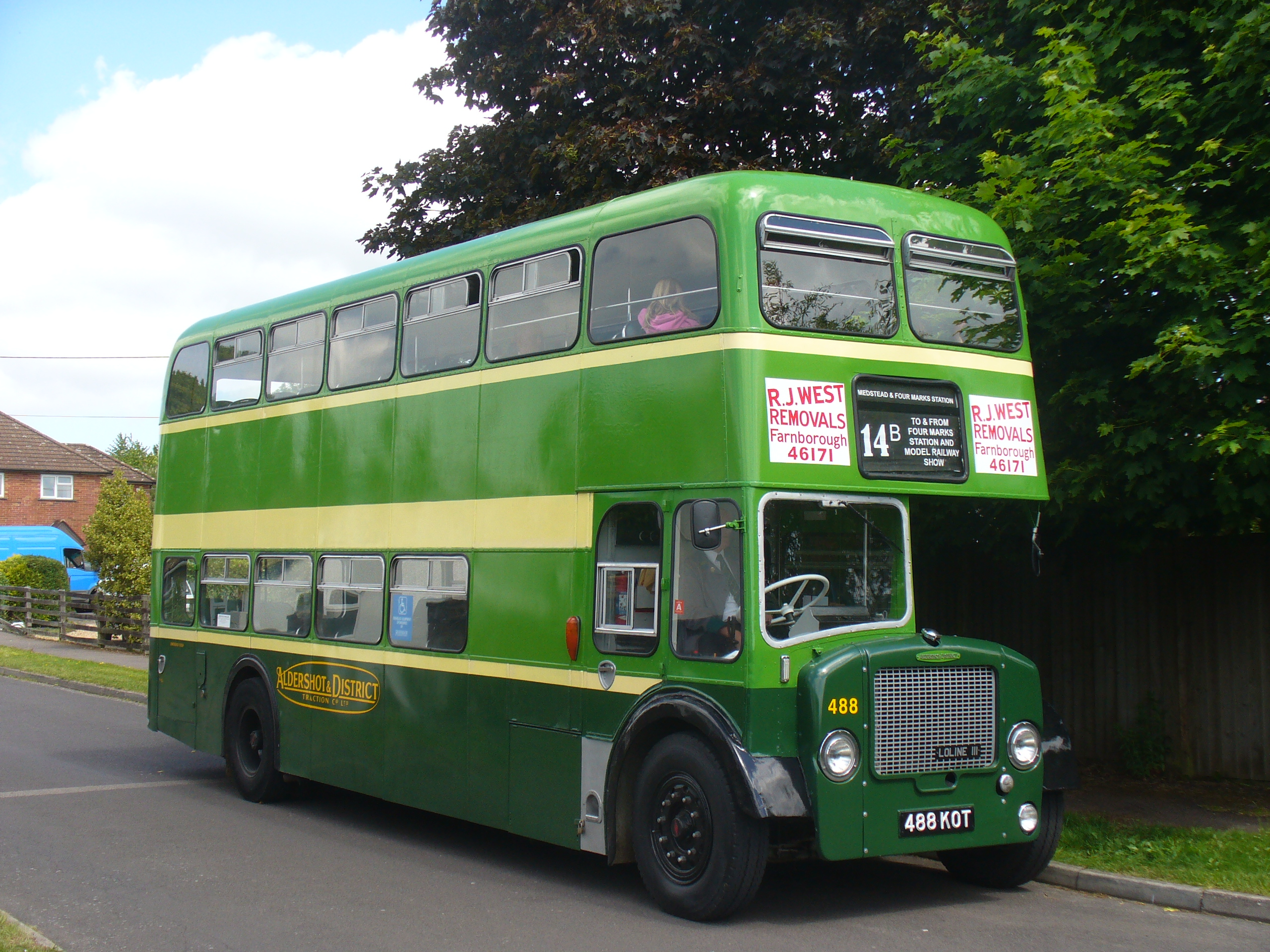 Preserved Aldershot & District bus 488 (reg. 488 KOT), a 1964 Dennis Loline III double-decker with Weymann bodywork. It's pictured in the village of Four Marks in Hampshire, working as a shuttle bus between the station (on the heritage Watercress Line) and the village hall, which was holding a transport exhibition.